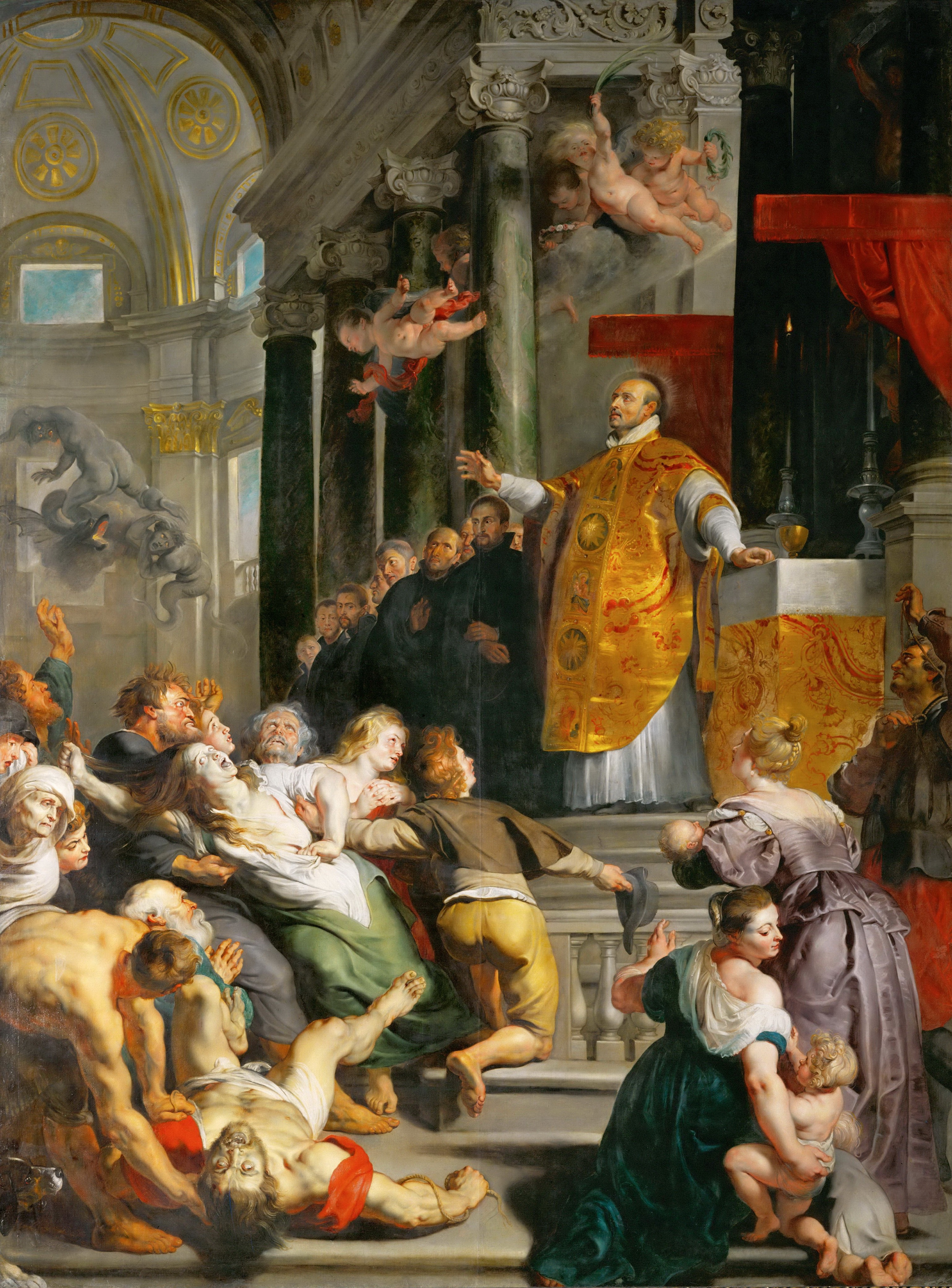 Miracle of St. Ignatius